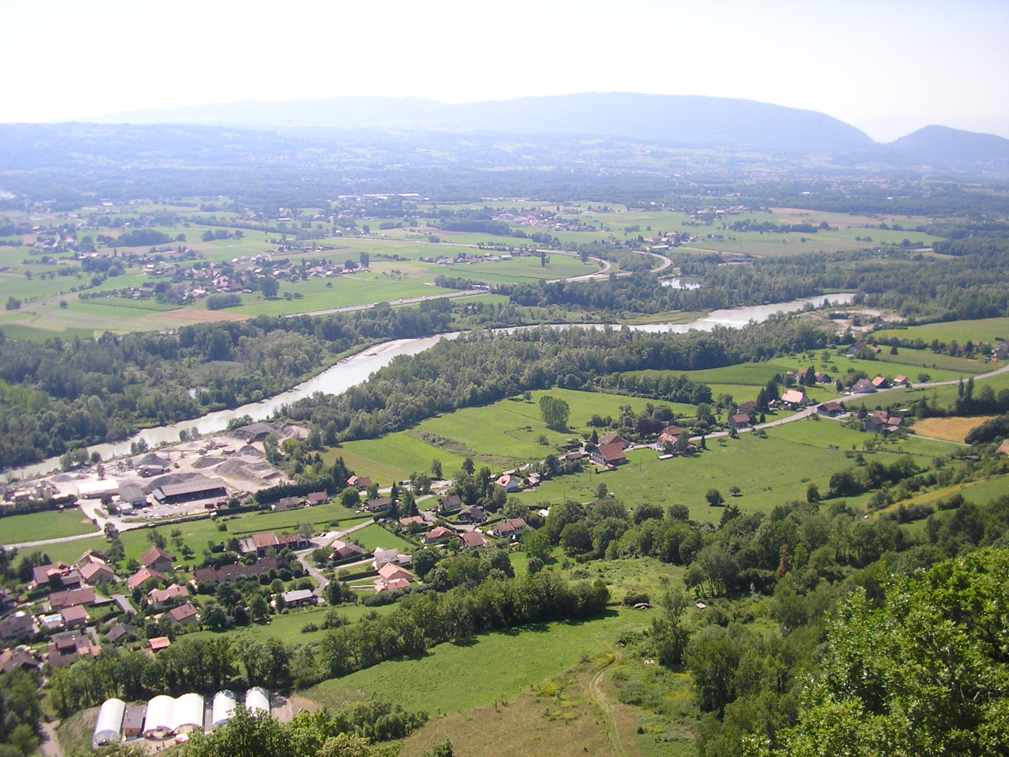 The Arve river seen from Faucigny in Haute-Savoie.